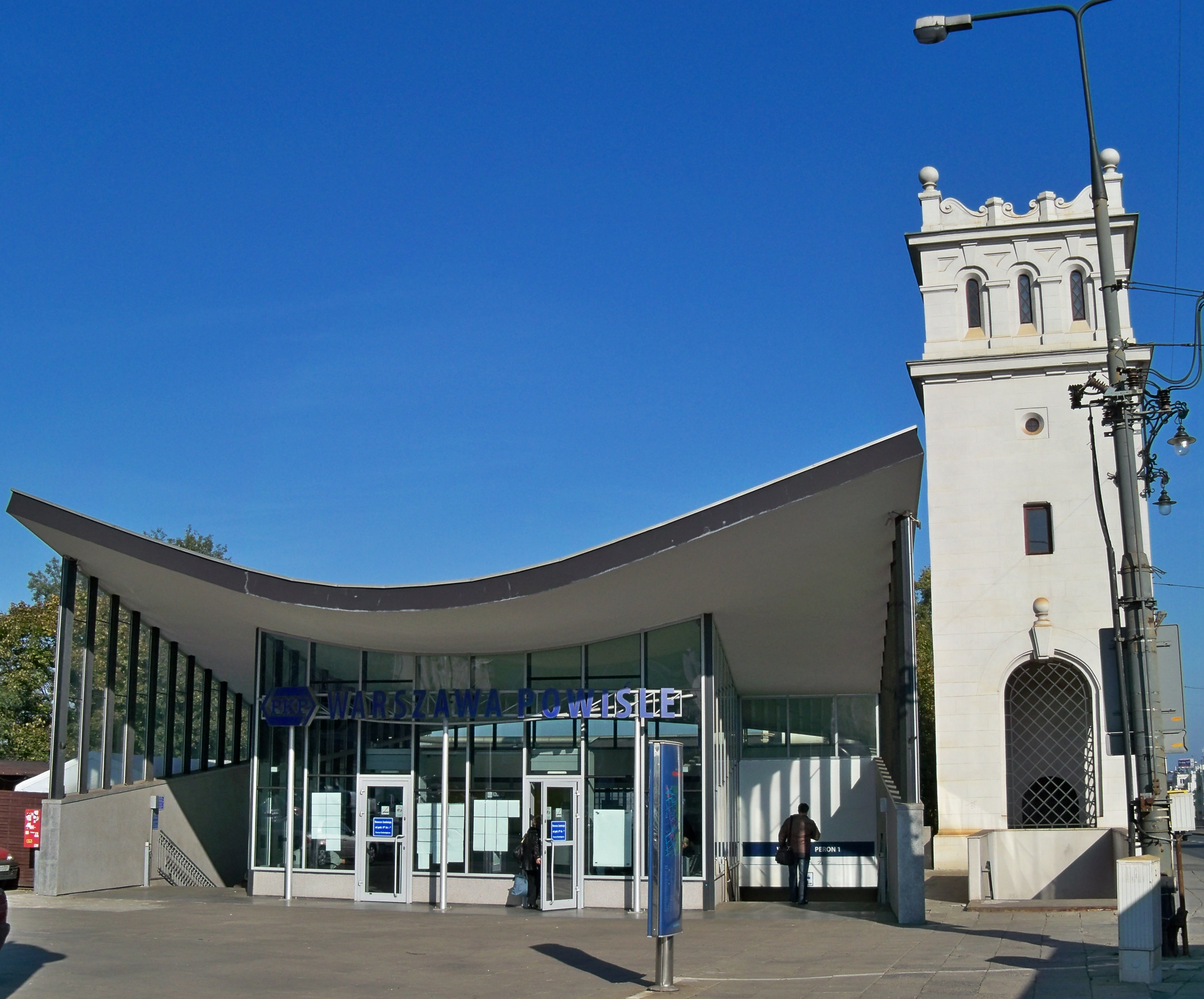 Warszawa-Powiśle railway station.